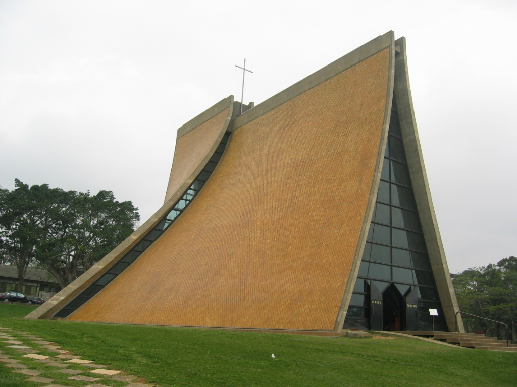 東海大學路思義教堂 2006年4月2日，mingwangx攝於台中。 The Luce Chapel in Tunghai University. Taken by mingwangx on April 2nd, 2006.